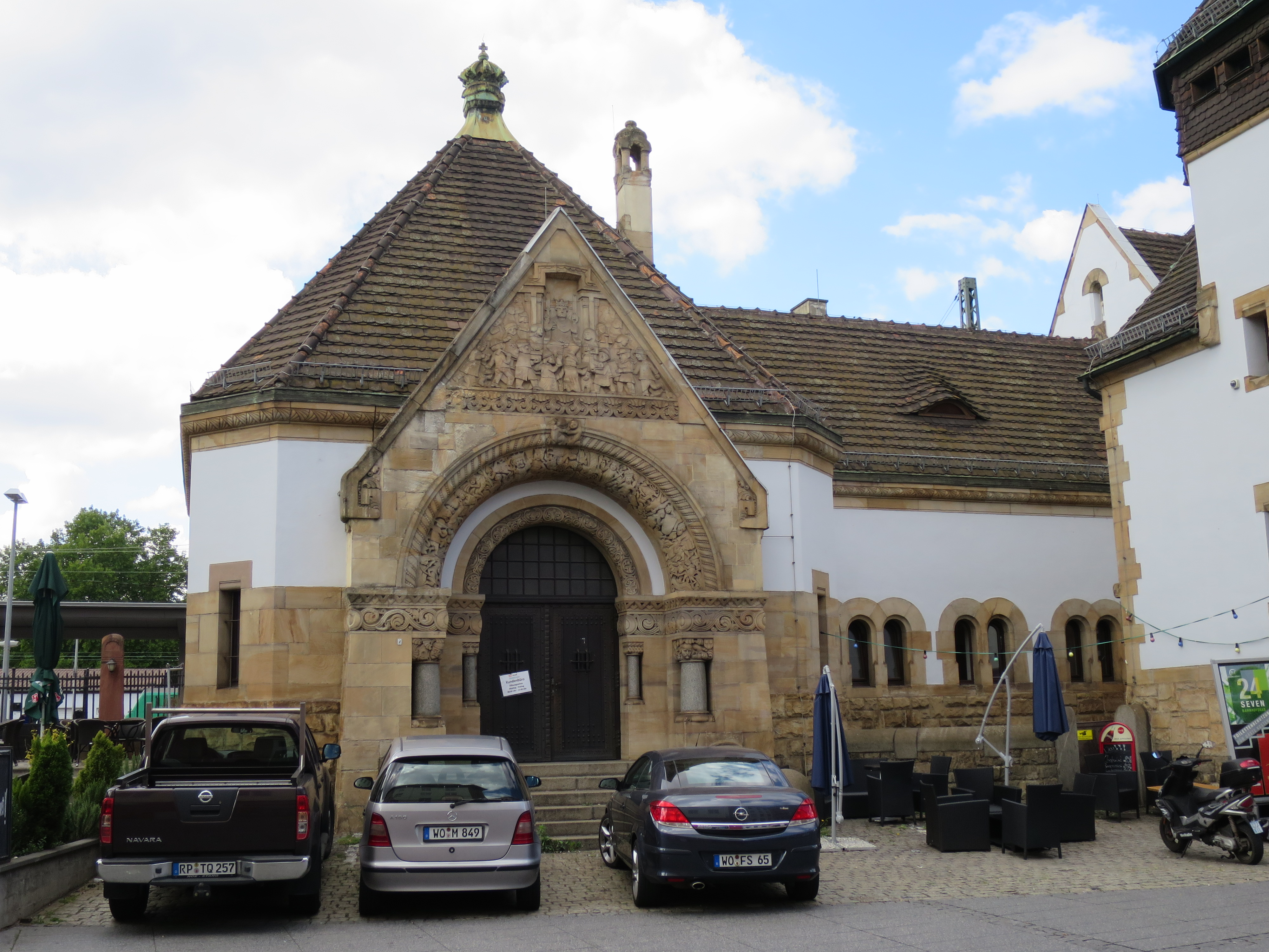 Grand-ducal Pavillon at Worms station